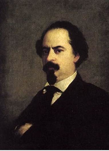 Self-portrait (cropped, recolored)